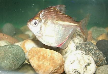 Brachychalcinus nummus